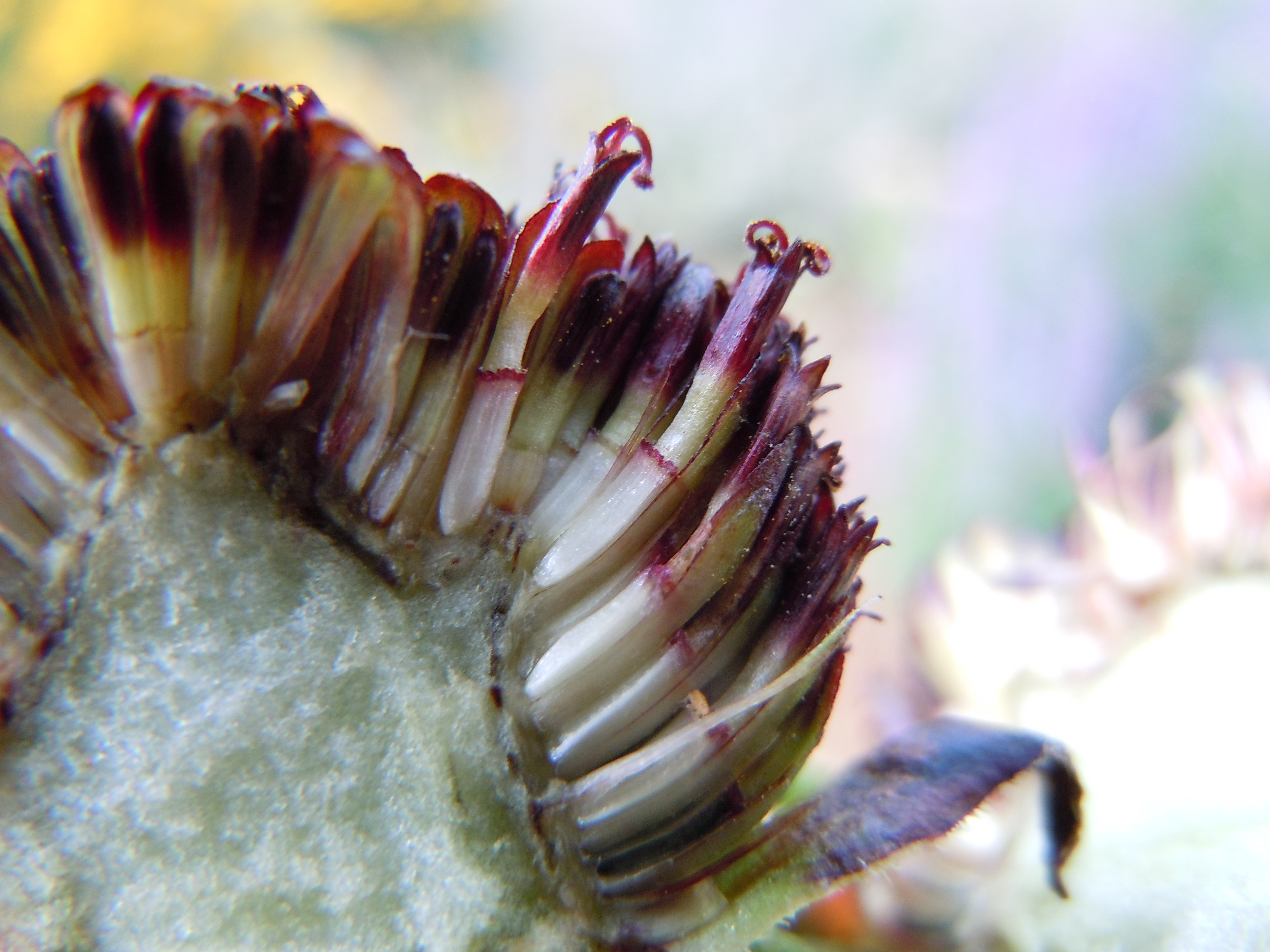 The receptacular bracts are blunt and mostly whitish but with the very margins reddish and the receptacle is conical. The pappus comprises a crown of scale.